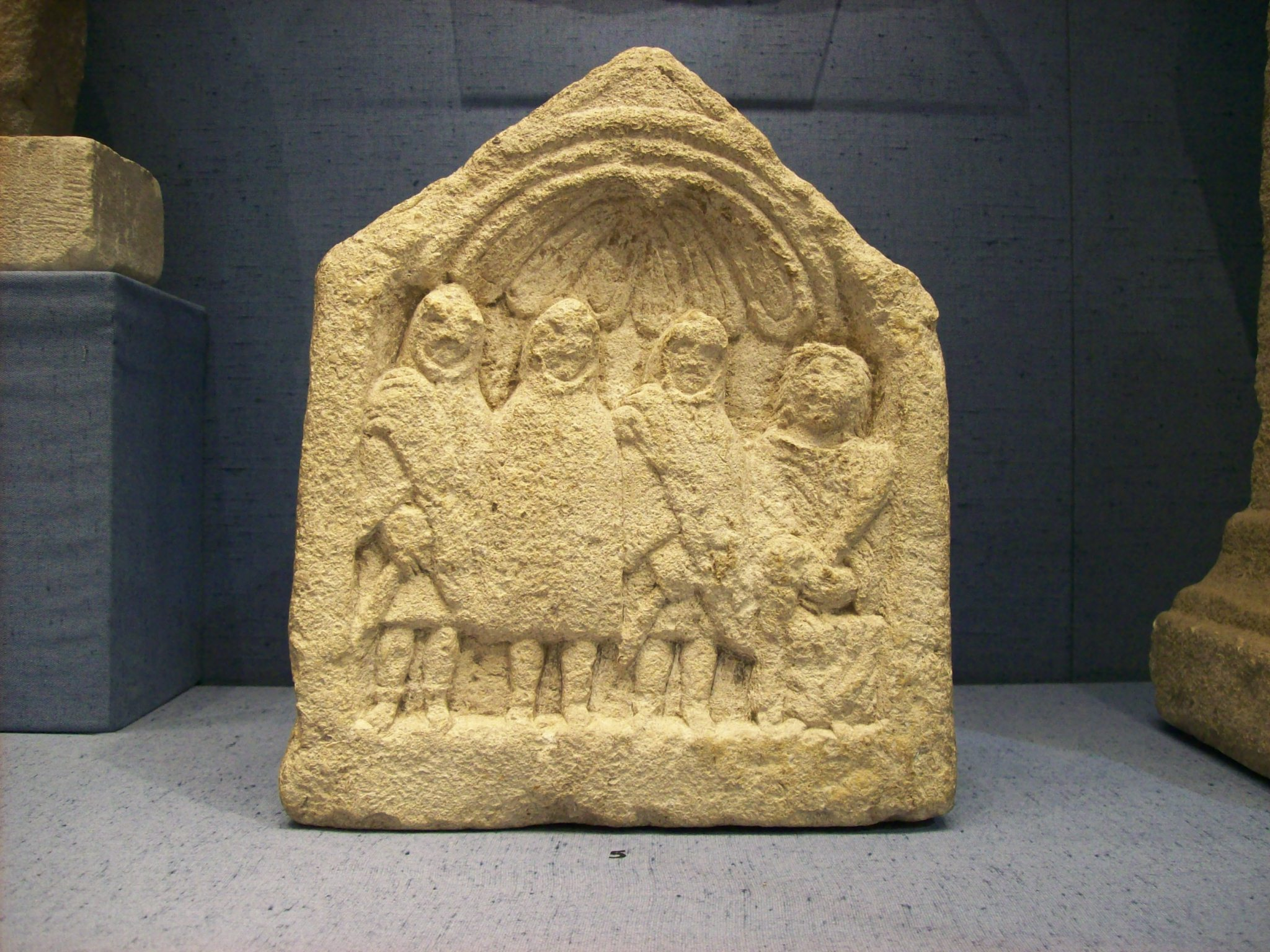 Genii Cuculatti and Goddess, Roman relief sculpture, Corinium Museum, Cirencester